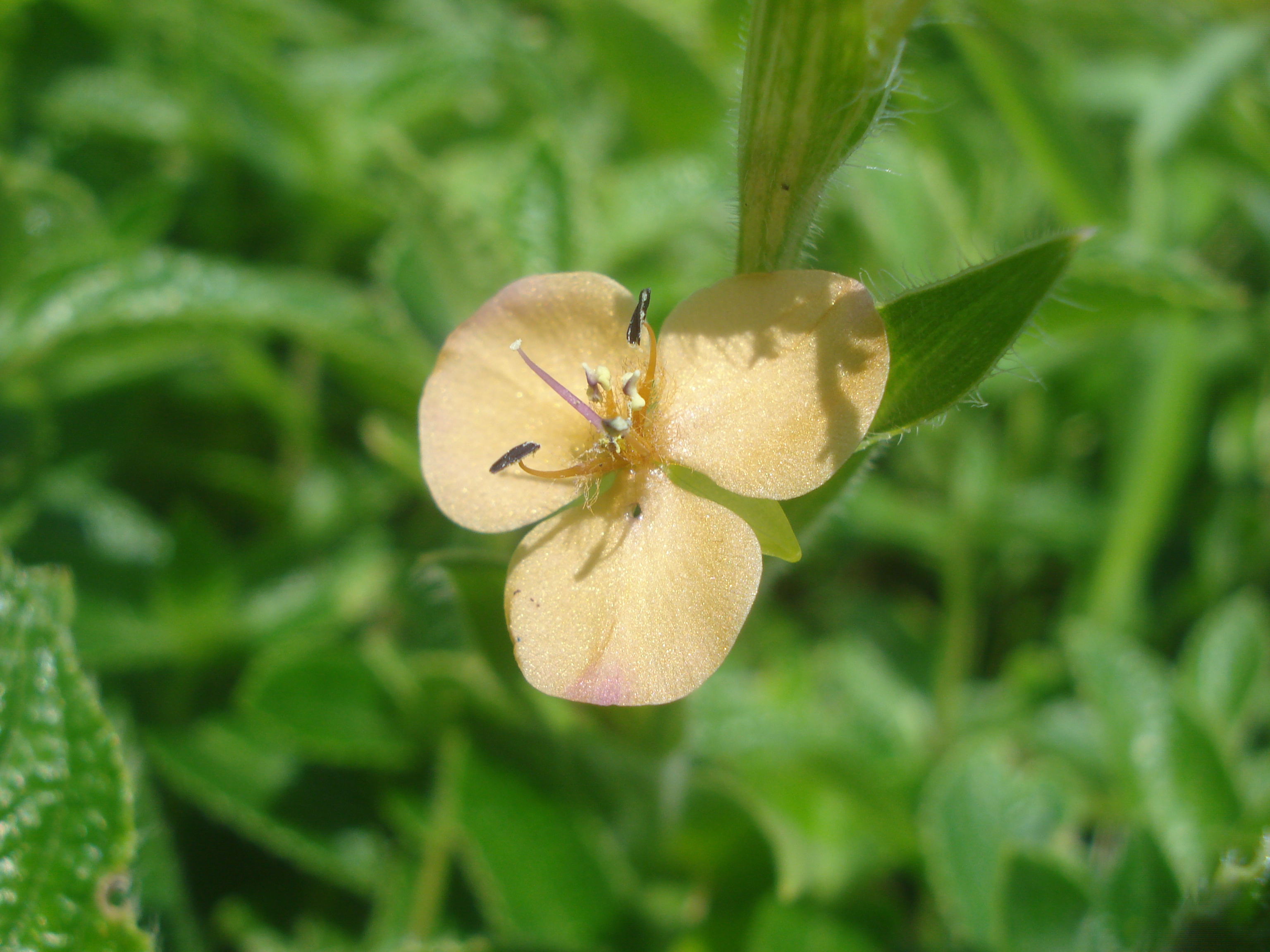 Wild flower Murdannia Lanuginosa photographed by Vaibhav Kaware at the Kaas Plateau on 02nd October 2015